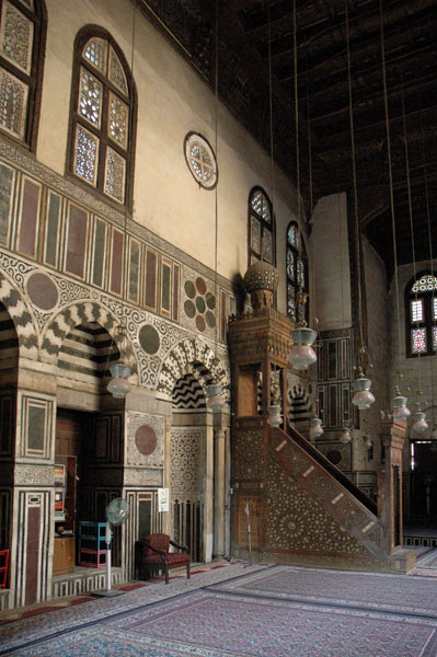 Madrasa of al-Ghuri. Cairo. Egypt